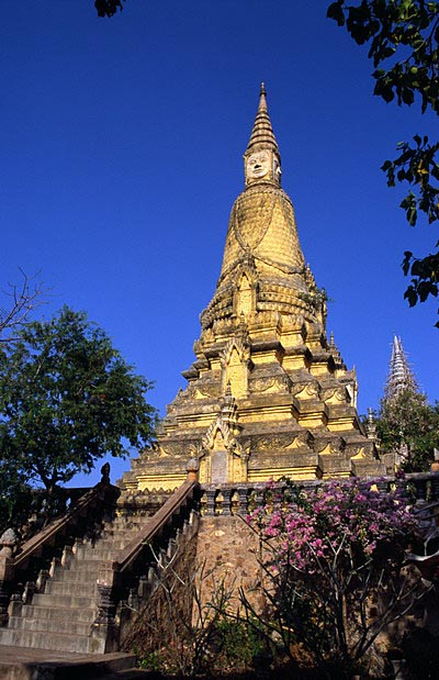 The Old Cambodian capital Udong near Phnom Penh